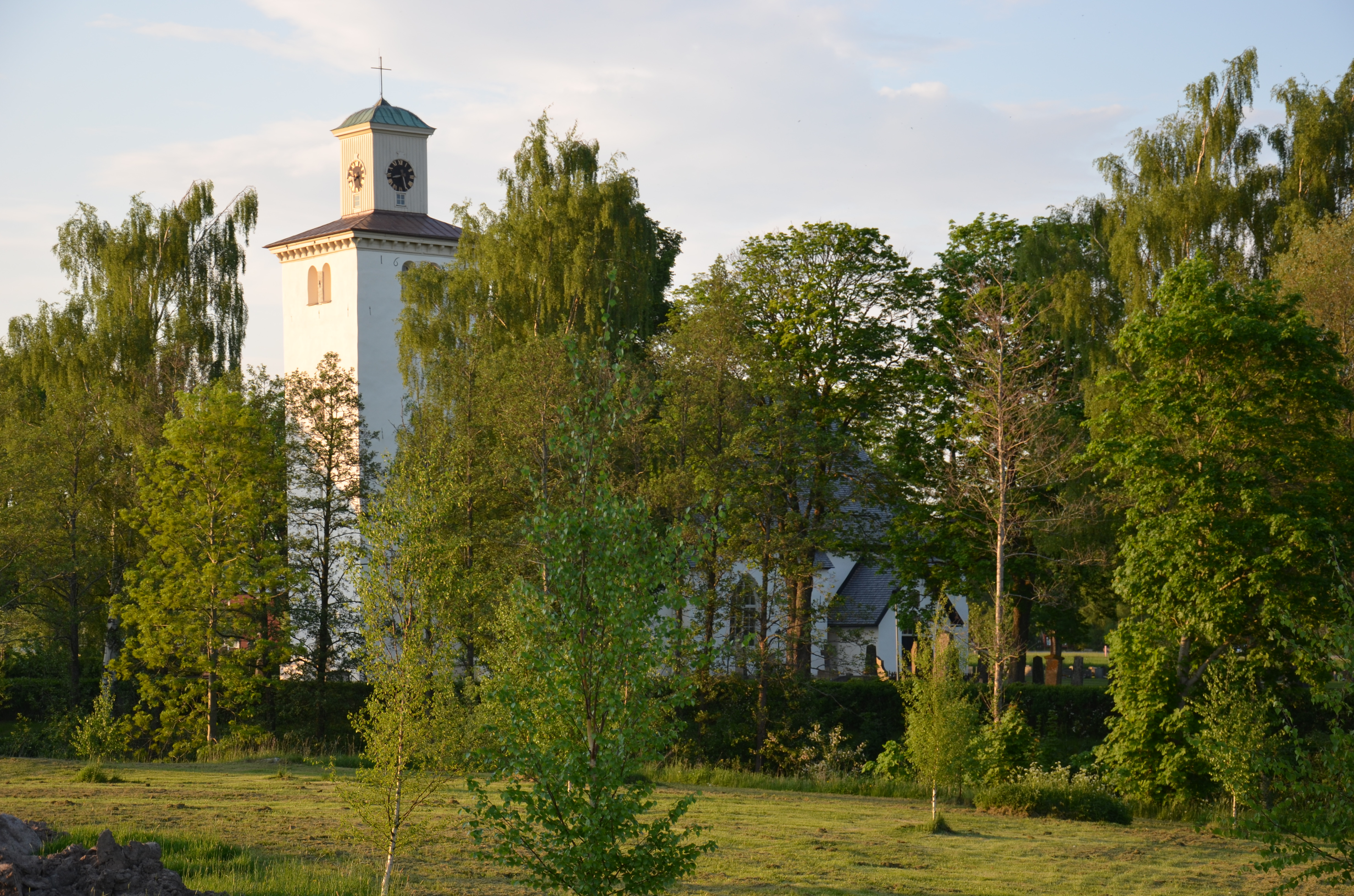 Lyrestad church, Swedn